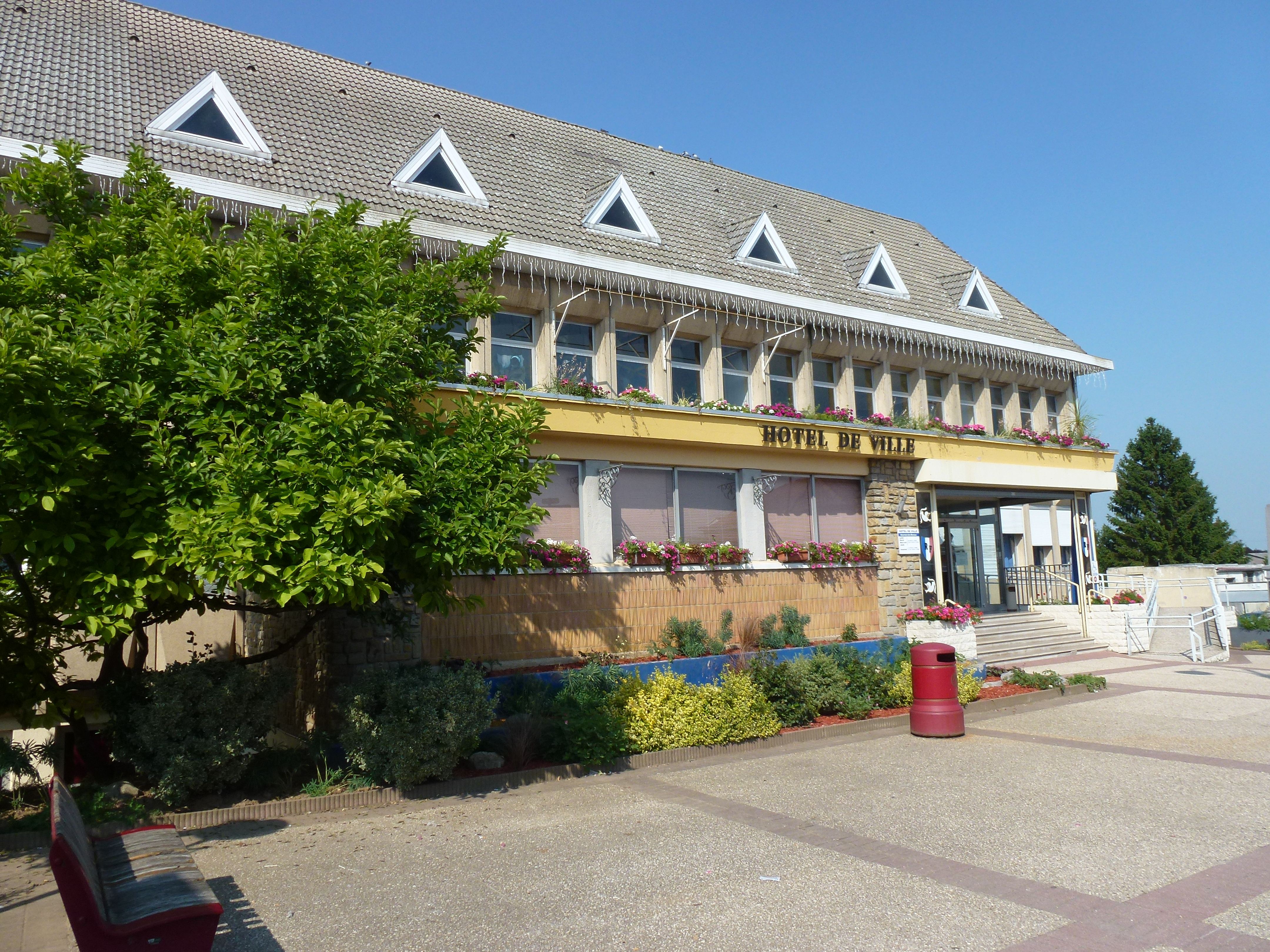 Courcelles-lès-Lens (Pas-de-Calais, Fr) mairie